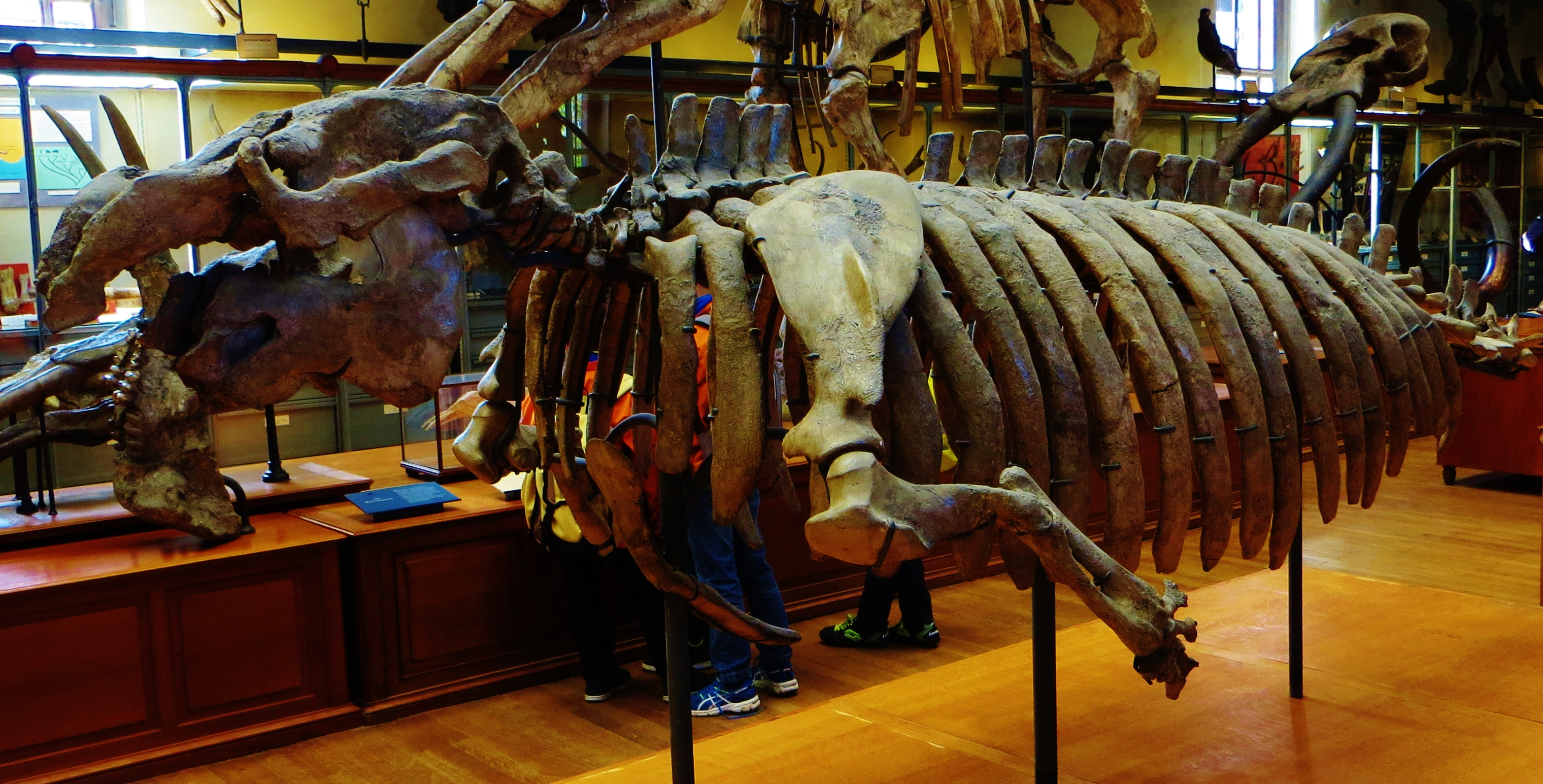 Fossil of Metaxitherium medium (synonym Metaxitherium cuvieri), an extinct mammal. Took the photo at Musee d'Histoire Naturelle, Paris